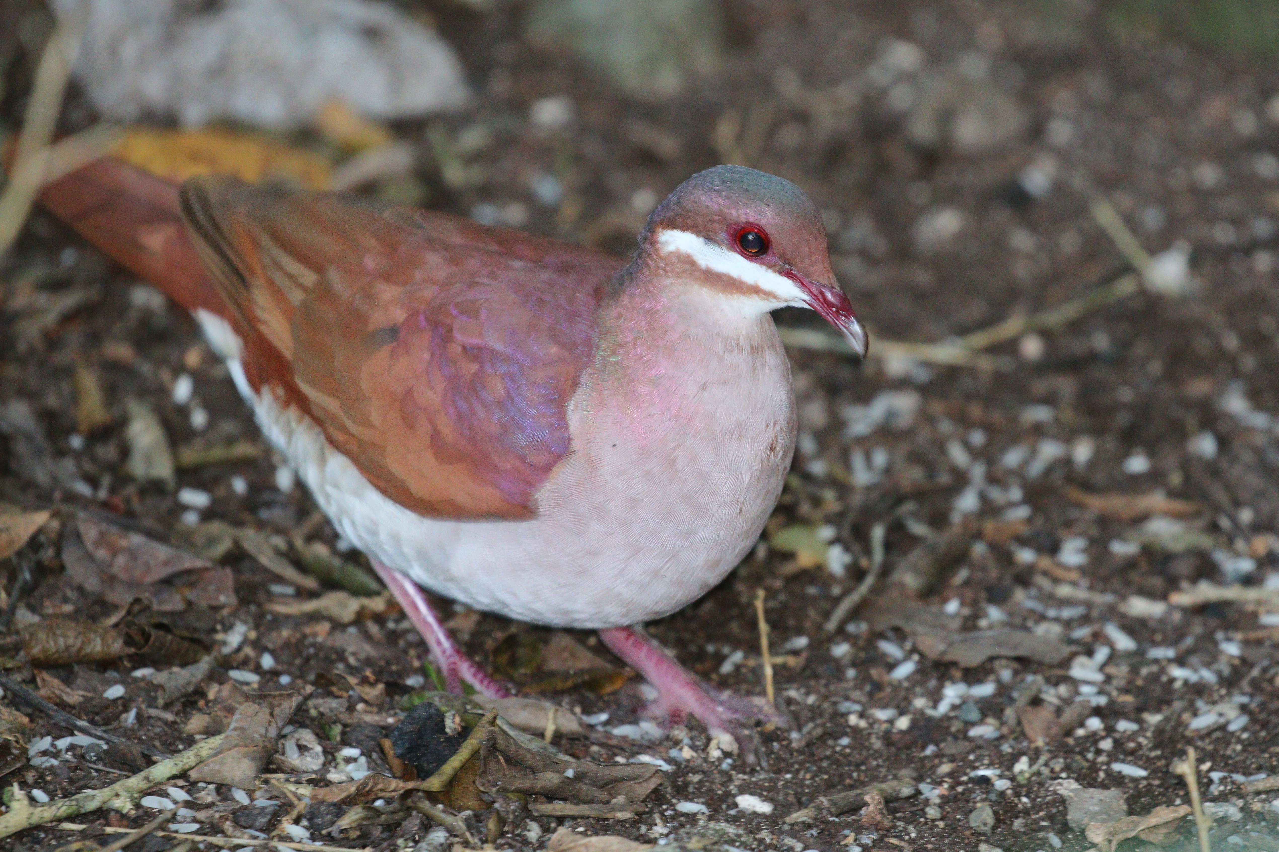 Key West quail-dove (Geotrygon chrysia), Cuba